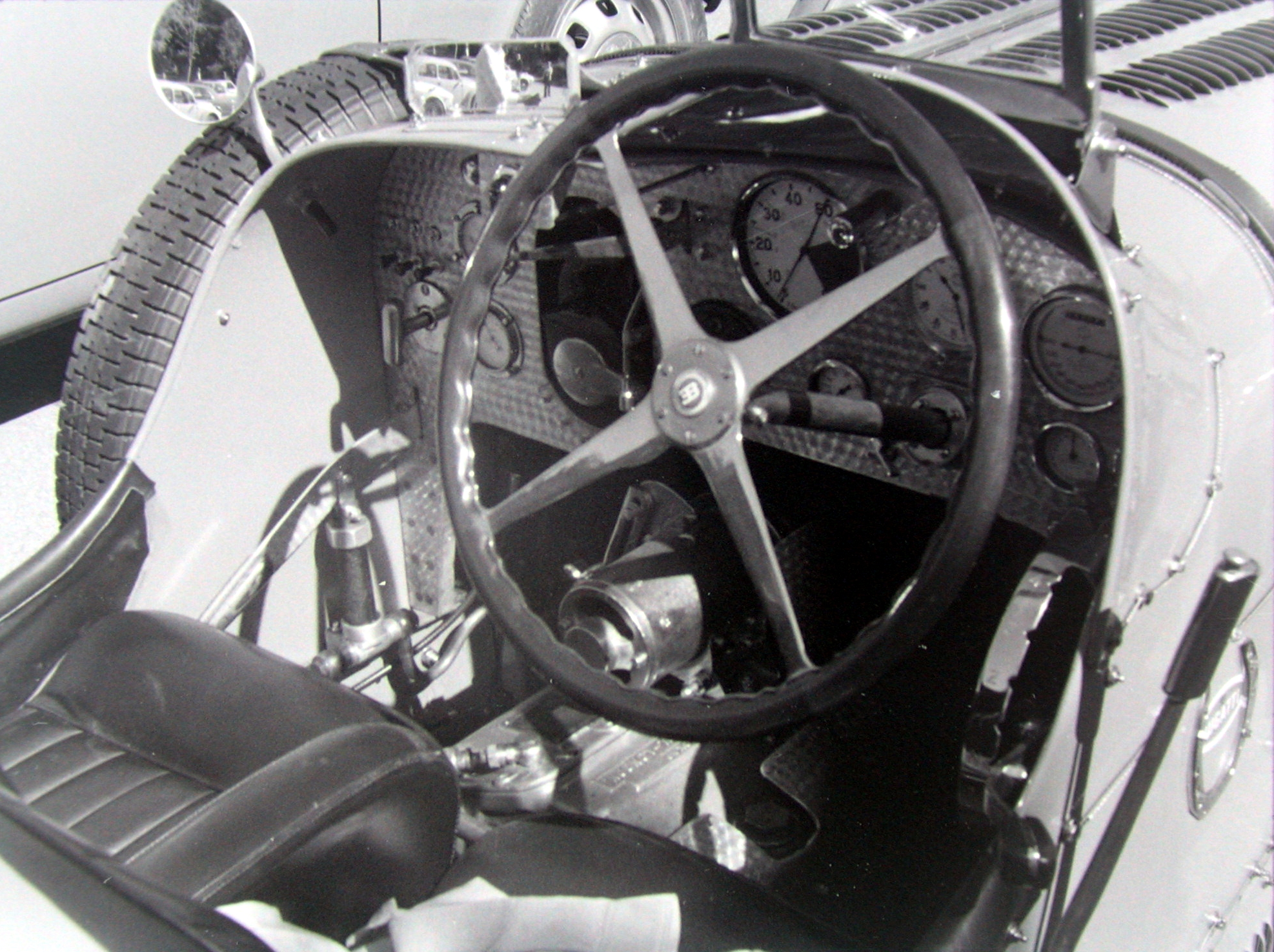 Bugatti Type 51 Cockpit, Wilson pre-selection Gearbox.